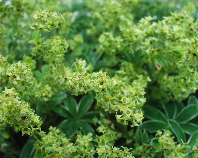 (en) Alchemilla alpina, a photography originating of the internet site The accord of the autor, H. Brisse, is here. (frAlchemilla alpina, une photographie issue du site internet L'accord de l'auteur, H. Brisse, se situe ici.